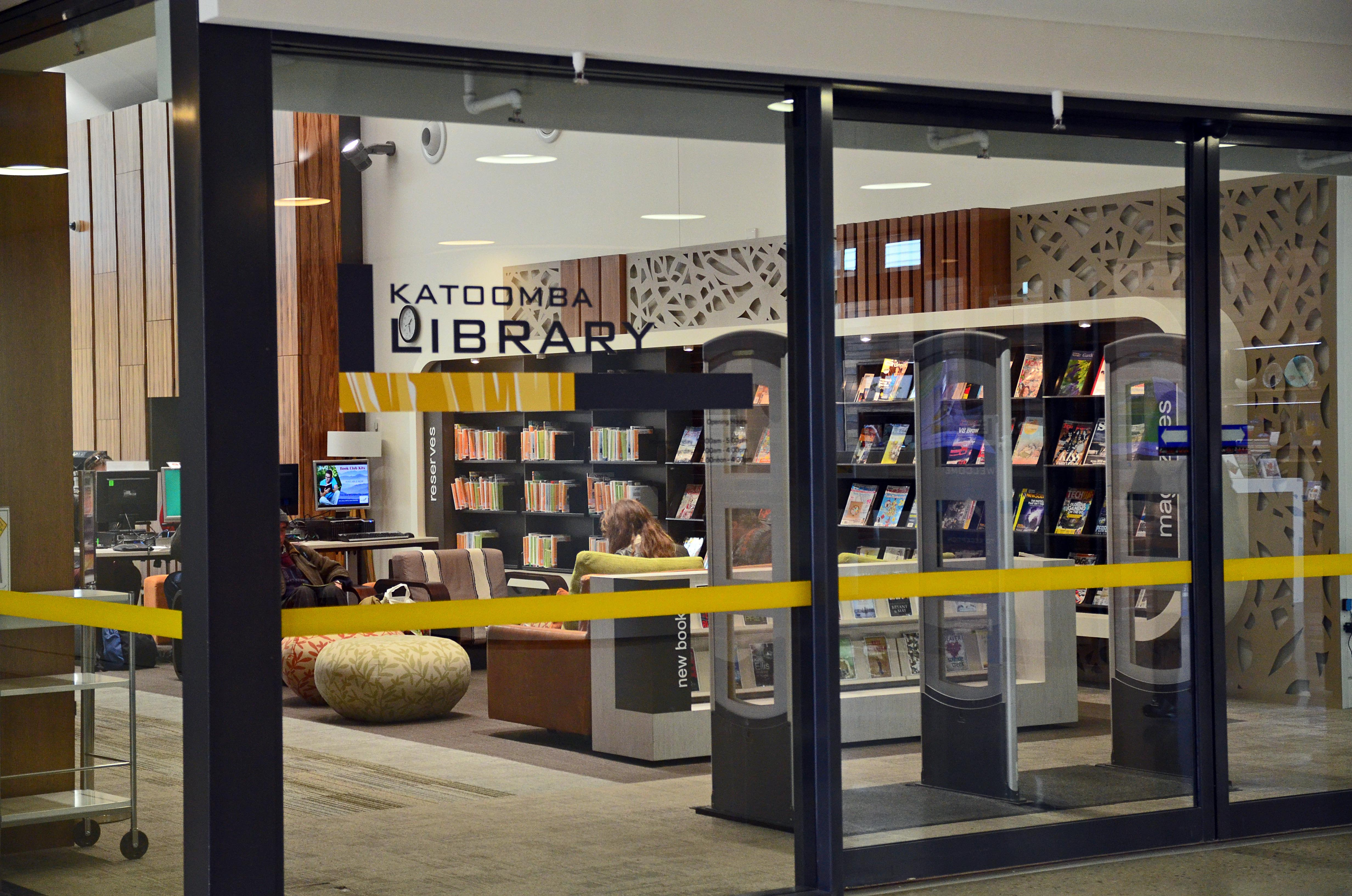 Katoomba Library entrance